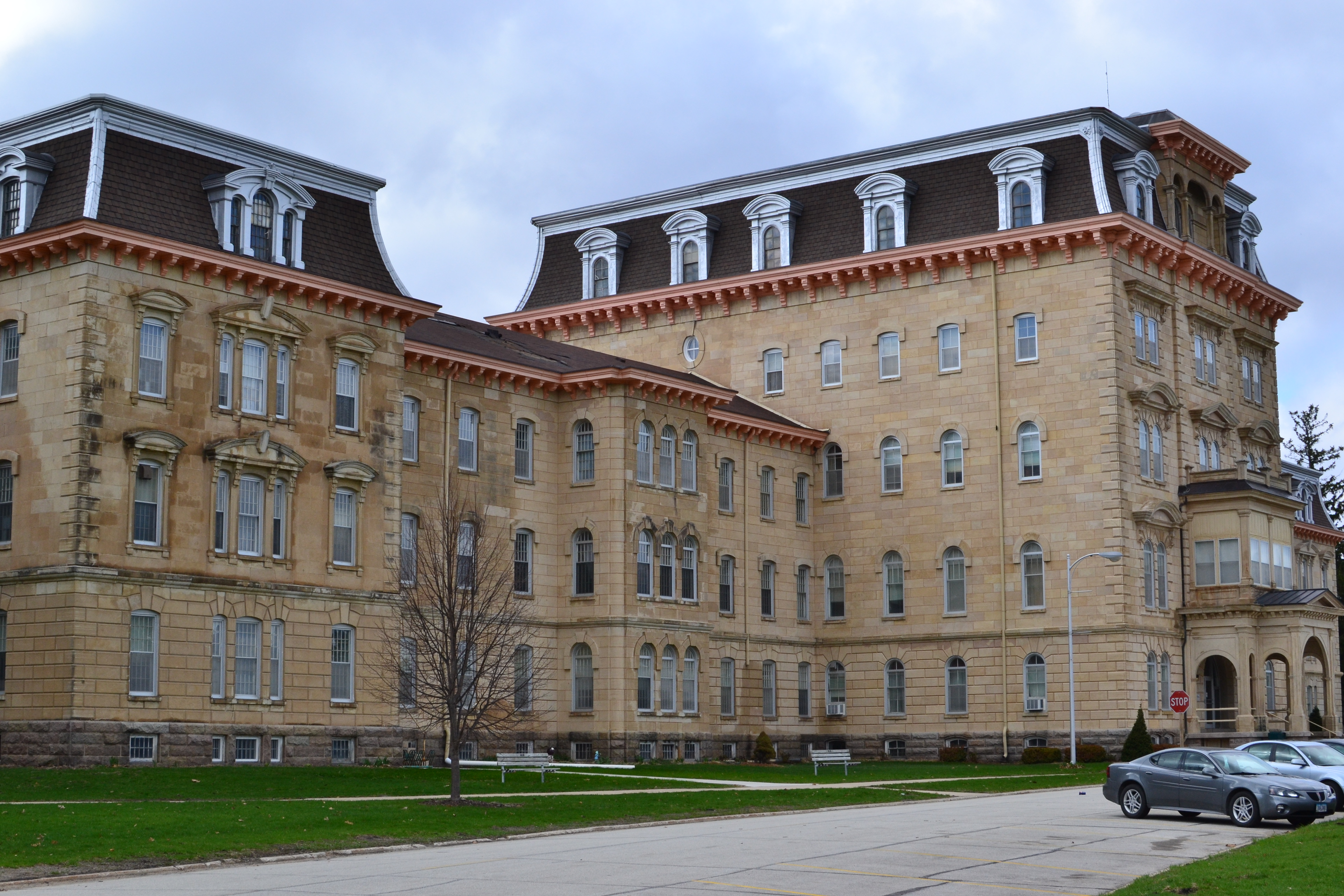 Wikipedia is a great source of information, but sometimes when a single source provides the information, it suffers from what you see here: "The Independence State Hospital was built in 1873 as the second asylum in the state of Iowa. It is located in Independence, Iowa. The original plan for patients was to relieve crowding from the hospital at Mount Pleasant and to hold alcoholics, geriactrics, drug addicts, mentally ill, and the criminally insane. It was built under the Kirkbride Plan. The hospital's many names include: The Independence Lunatic Asylum, The Independence State Asylum, The Independence Asylum for the Insane, The Iowa State Hospital for the Insane, and The Independence Mental Health Institute. There is also a labyrinth of underground tunnels which connect every building. Like most asylums of its time, it has had a gruesome and dark history. Remnants of this are the graveyard, hydrotherapy tubs, and lobotomy equipment."